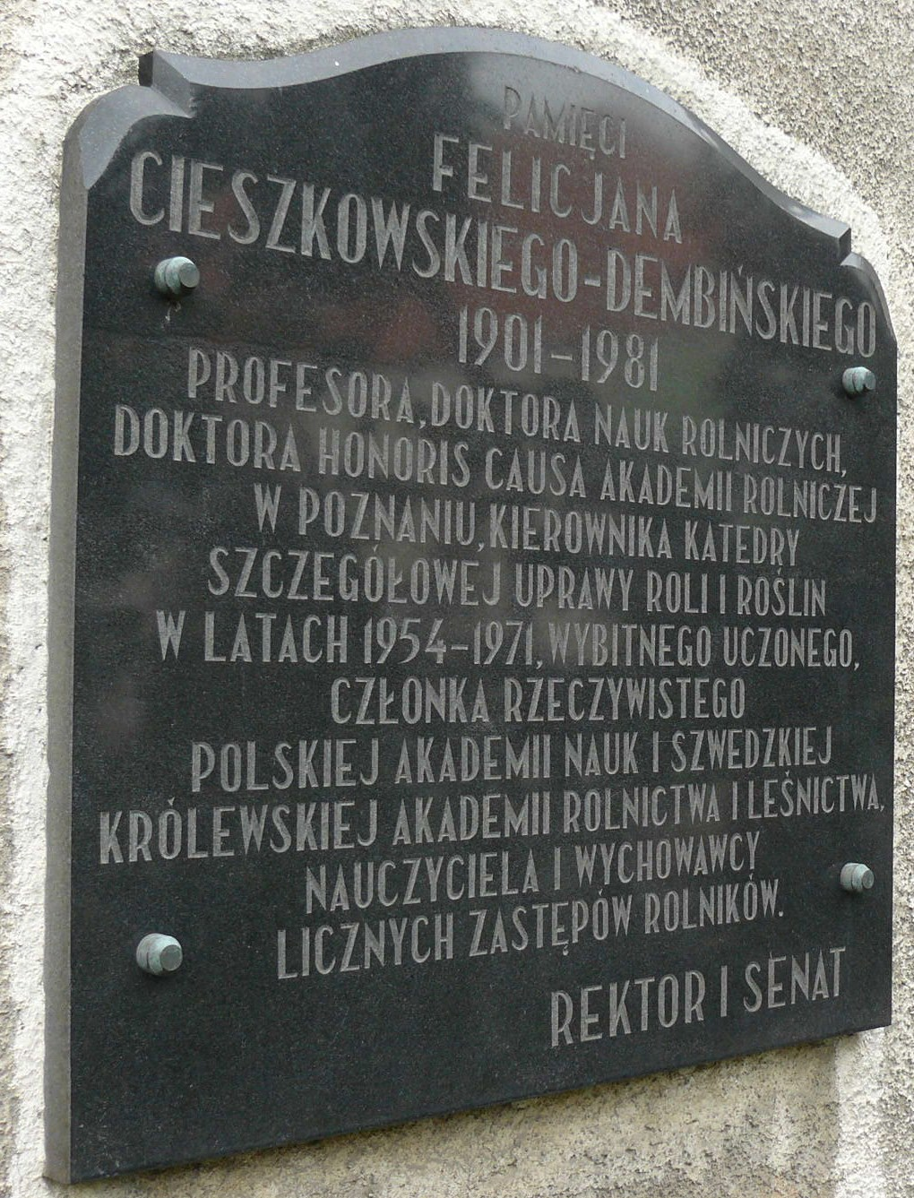 Felicjan Cieszkowski-Dembinski Plaque, Poznan.